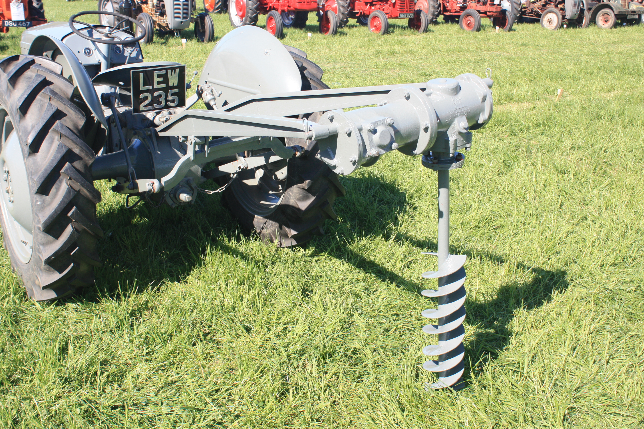 A Ferguson post hole digger/auger on a Ferguson tractor (reg. LEW 235) at a show somewhere in England